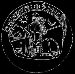 Sceaux of Bernard v de Comminges